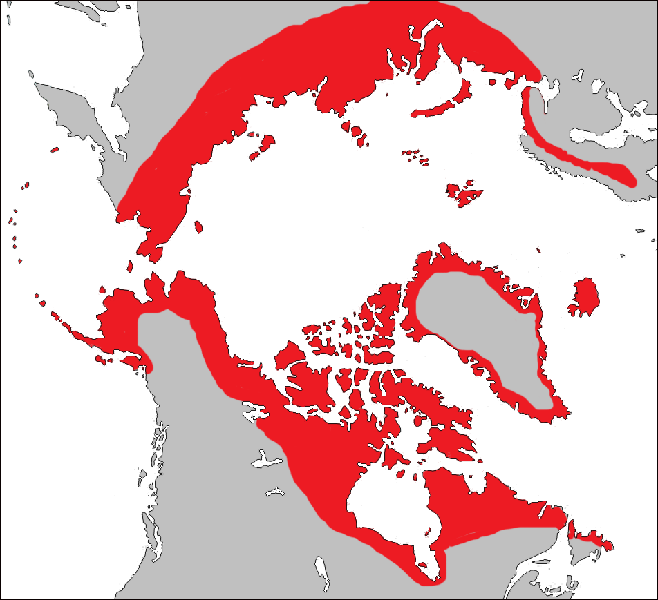 Distribution of the Arctic Fox, Alopex lagopus